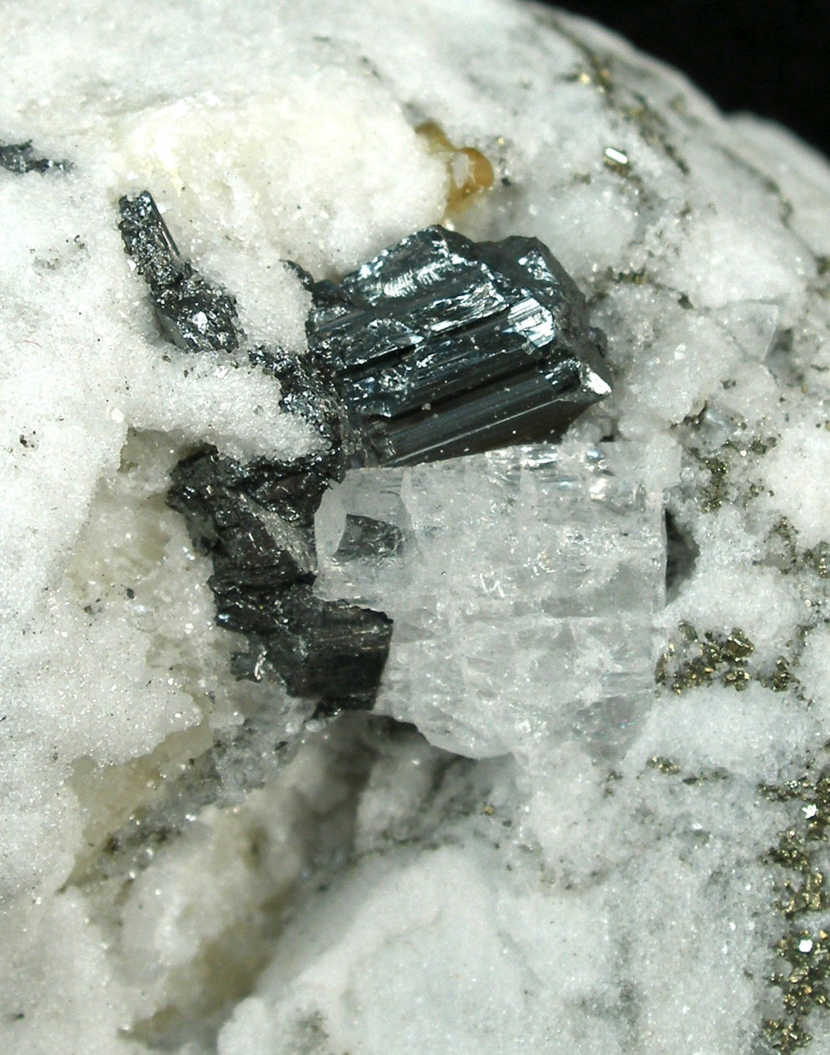 Baumhauerite Locality: Lengenbach Quarry, Im Feld (Imfeld; Feld; Fäld), Binn Valley, Wallis (Valais), Switzerland (Locality at ) Size: small cabinet, 8.0 x 4.0 x 4.5 cm Baumhauerite From the TYPE LOCALITY for this rare species, here is a beautiful, striated, 9-mm crystal in a protected cavity of sugary dolomite matrix. From the collection of a longtime Lengenbach collector, which was sold off recently. This is a fat , exposed, display-quanlity crystal! In this display quality, rarely seen